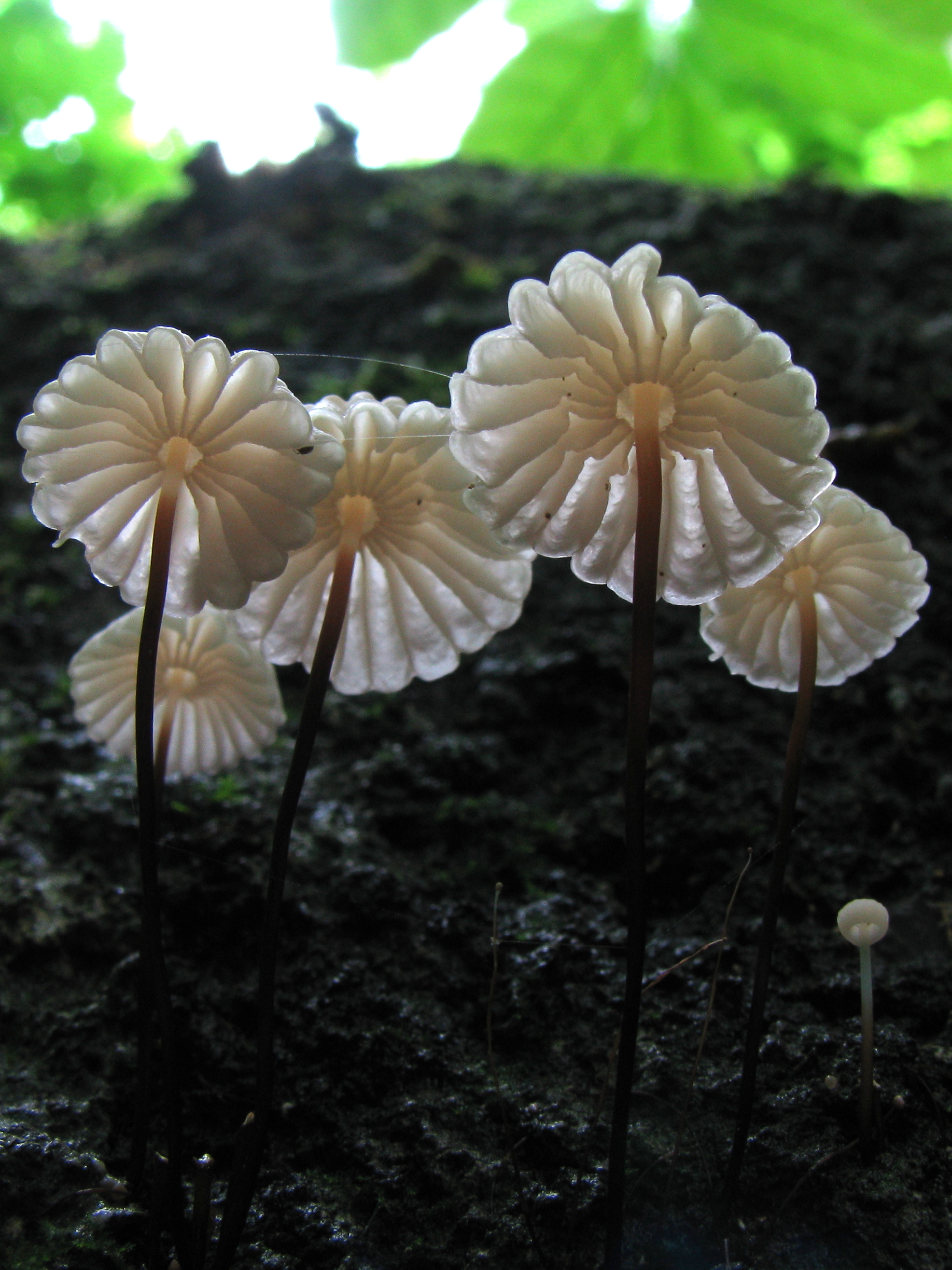 The "pinwheel Marasmius, species Marasmius rotula. Photographed in Strouds Run State Park, Athens, Ohio, USA.